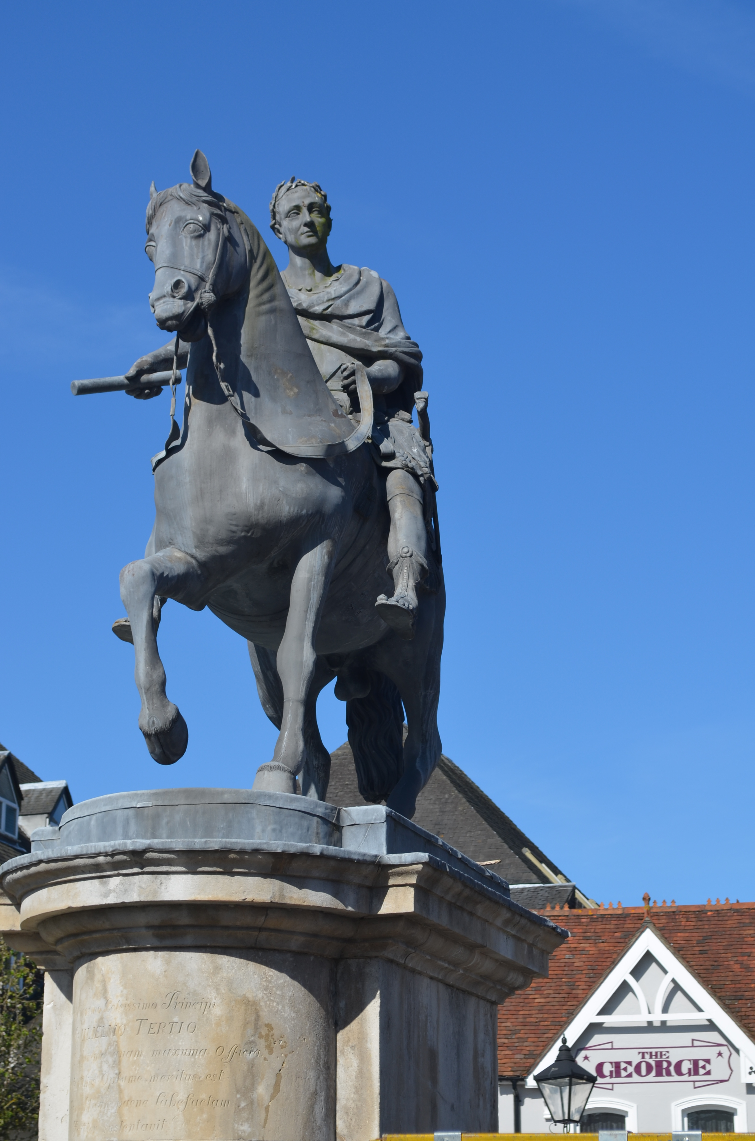 William III in Petersfield by Sir Henry Cheere, c. 1759 Sir Henry Cheere, 1st Baronet (1703–1781) Alternative namesSir Henry Cheere, 1st BaronetDescriptionBritish sculptorDate of birth/death170315 January 1781Location of birth/deathLondonLondonWork period1718–1770Work locationWestminsterAuthority control : Q7527118 VIAF: 35341865 ULAN: 500115359 WGA: CHEERE, Sir Henry GND: 122578503 RKD: 16553